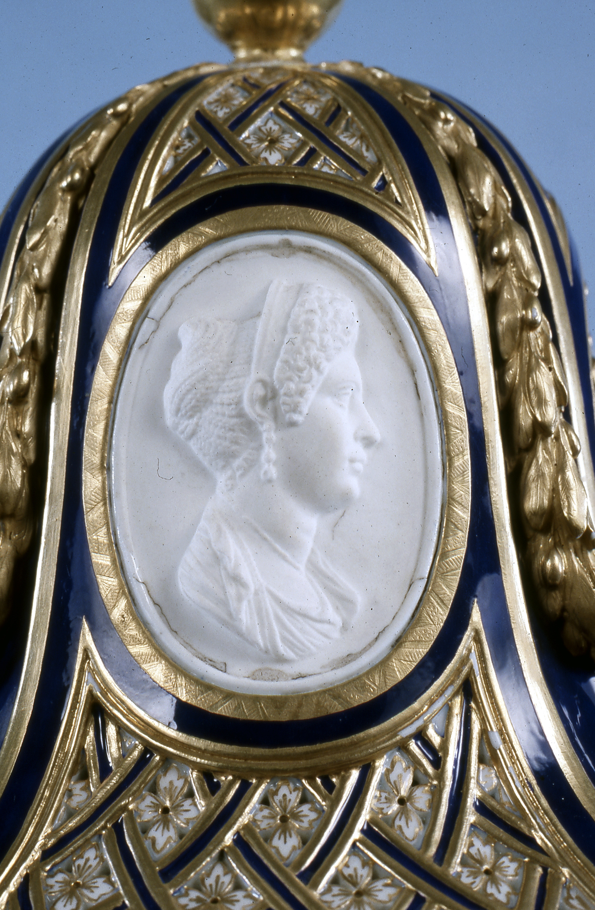 Unglazed medallions of the Latin god of commerce, Mercury, give these vases their name. On the reverse are medallions of Medusa and Julia, daughter of Emperor Titus, based on ancient carved gems formerly in the collection of Baron Philippe von Stosch. A similar pair of vases, dated 1767, in the Royal Collection of England, bear images of Louis XV and the Empress Marie-Therèse.